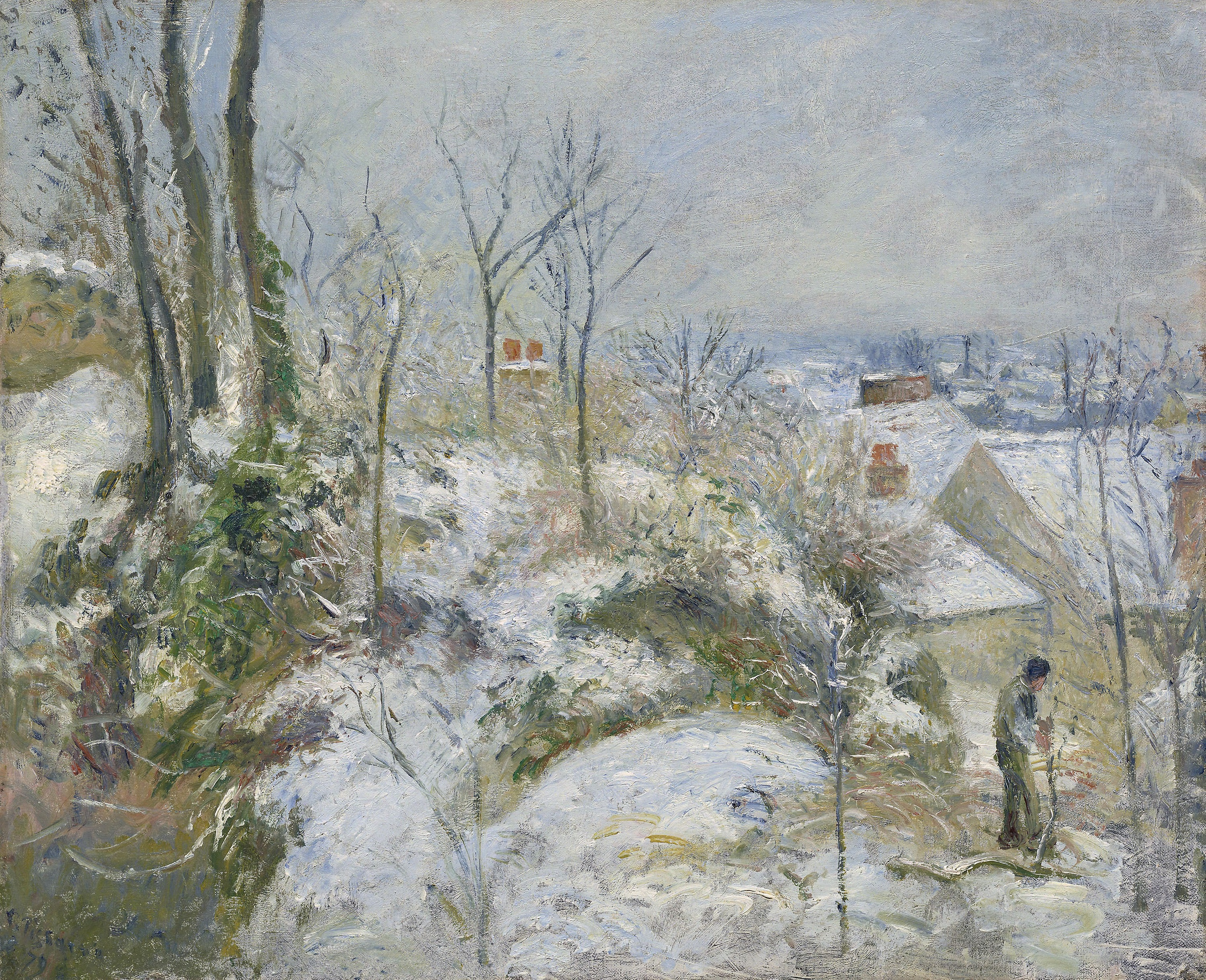 Rabbit Warren at Pontoise, Snow